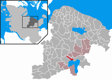 This map shows the area of the Gemeinde (municipality) Dörnick in the Kreis (district) Plön, Schleswig-Holstein, Germany.